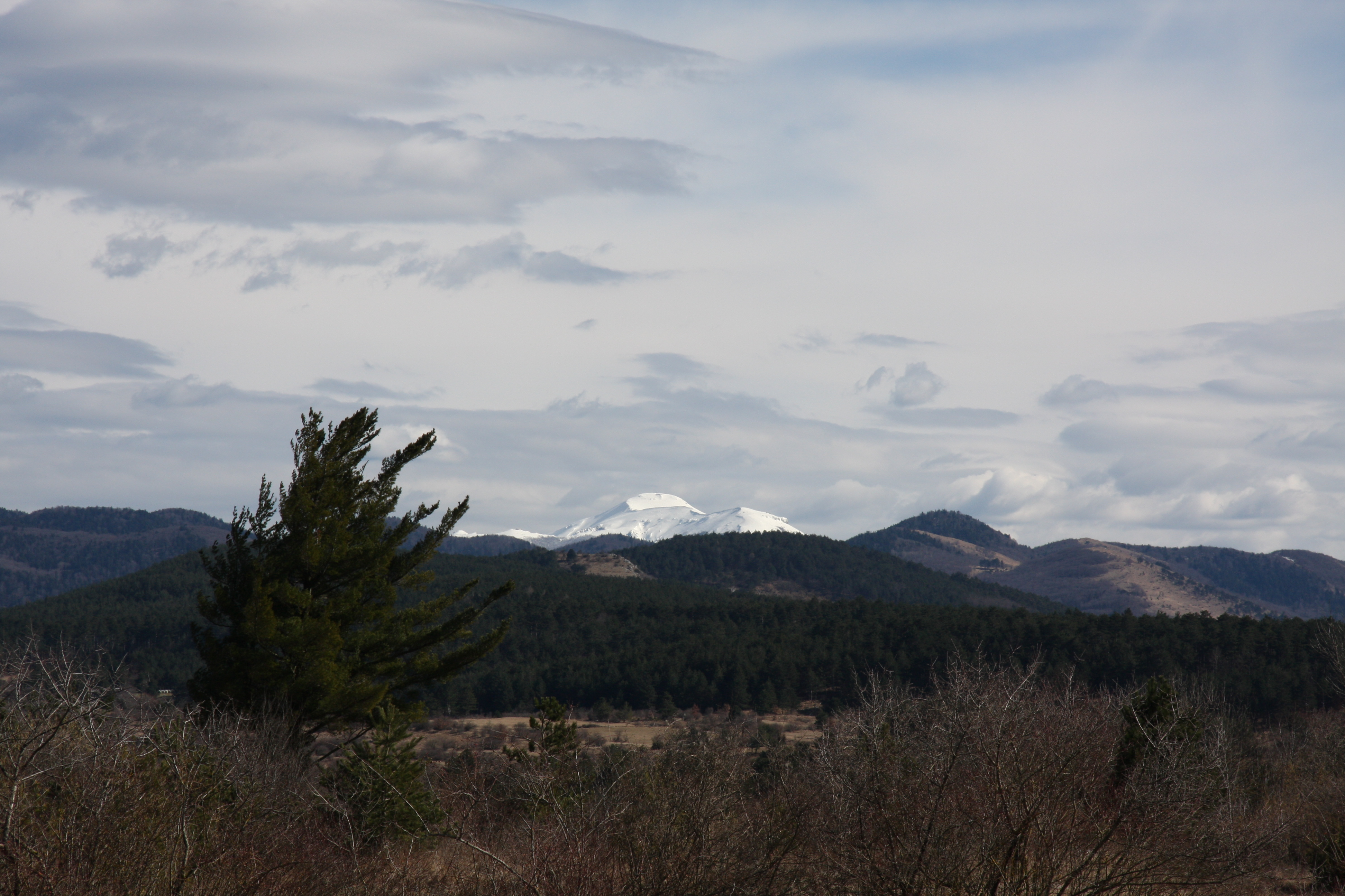 A view of mt. Snežnik from Pivka valley (NW, near the village of Palčje).